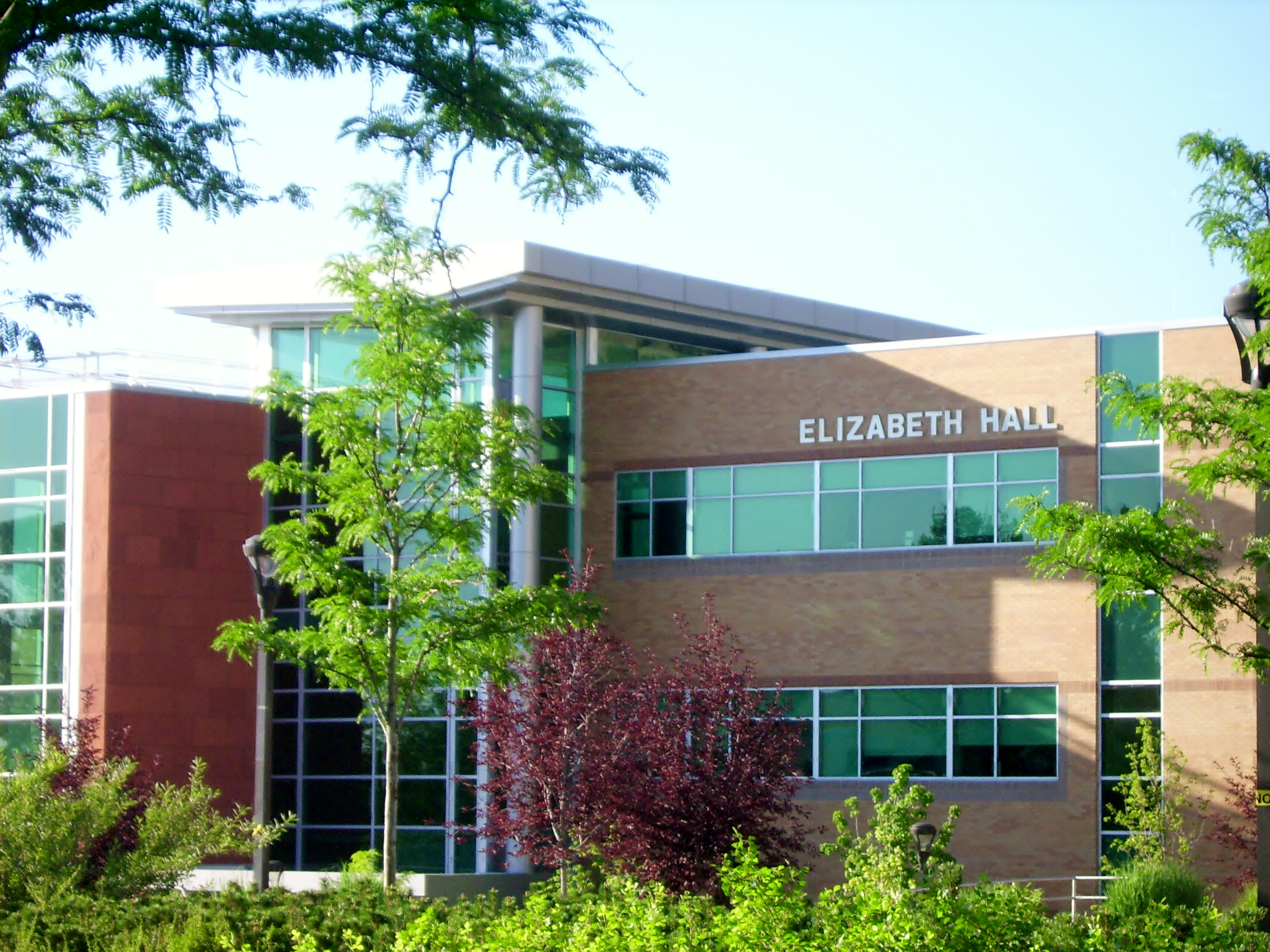 Weber State University campus